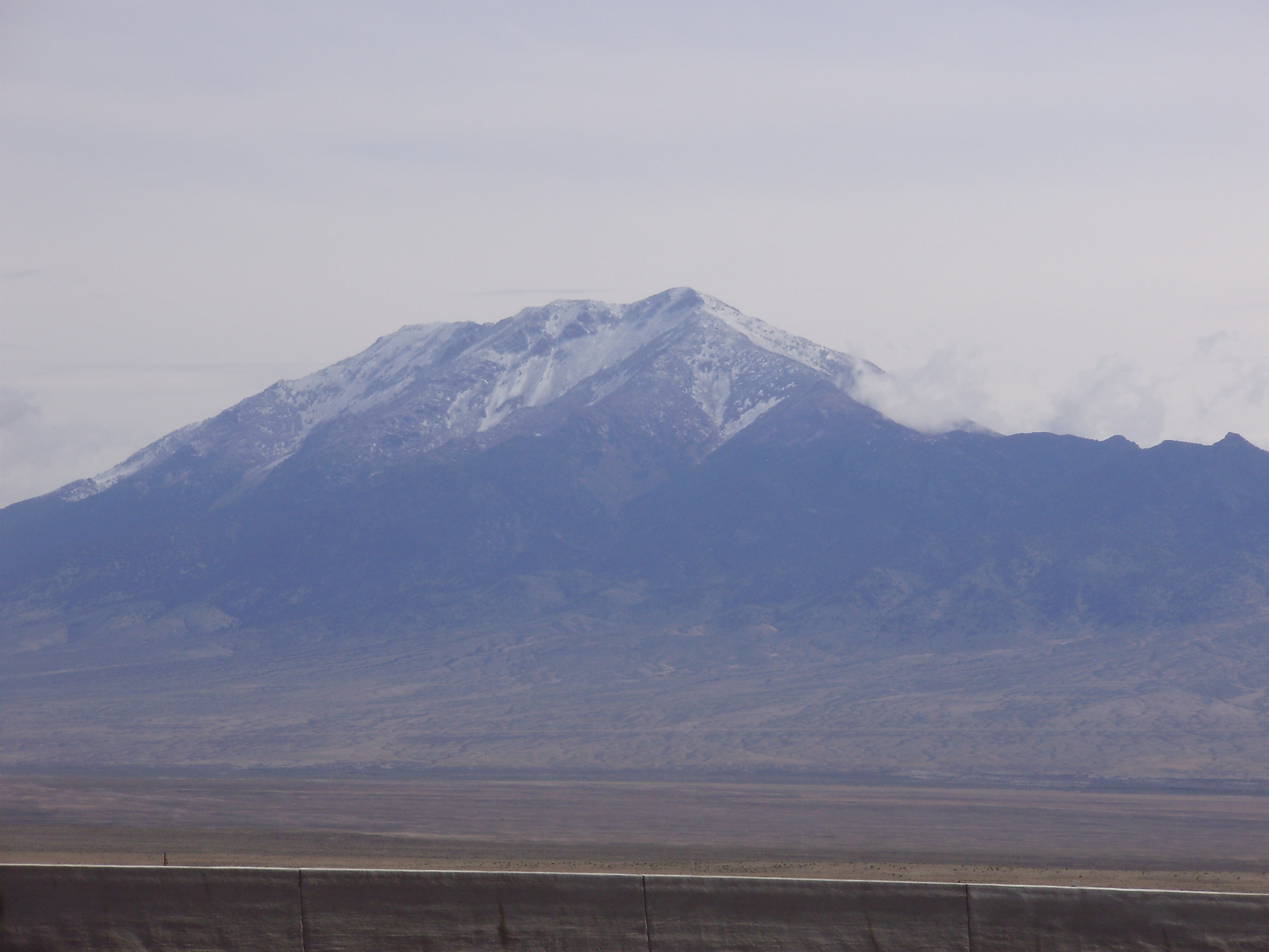 View of Pilot Peak, Nevada from Interstate 80 just east of Silverzone Pass